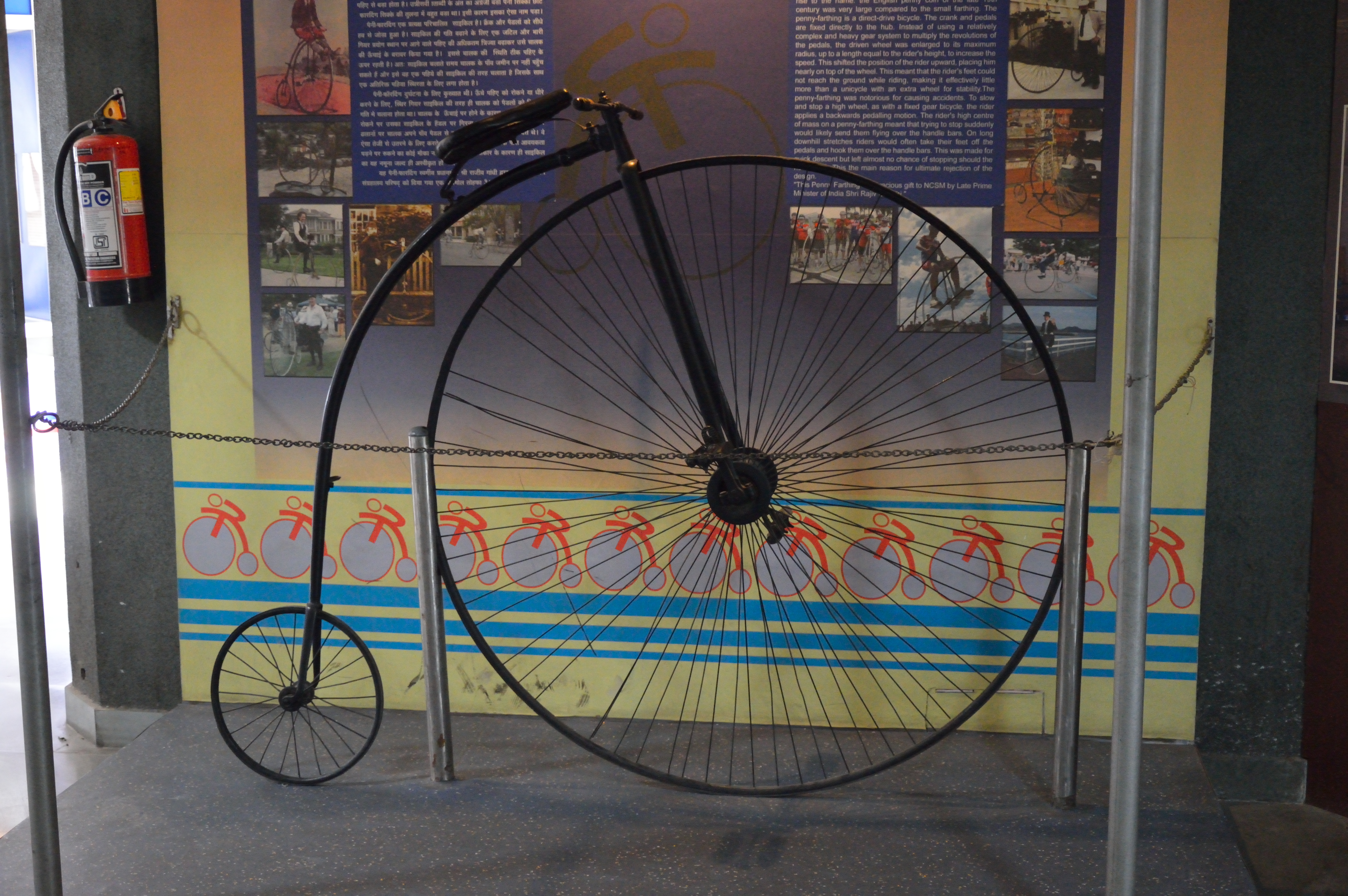 Photographed in New Delhi.